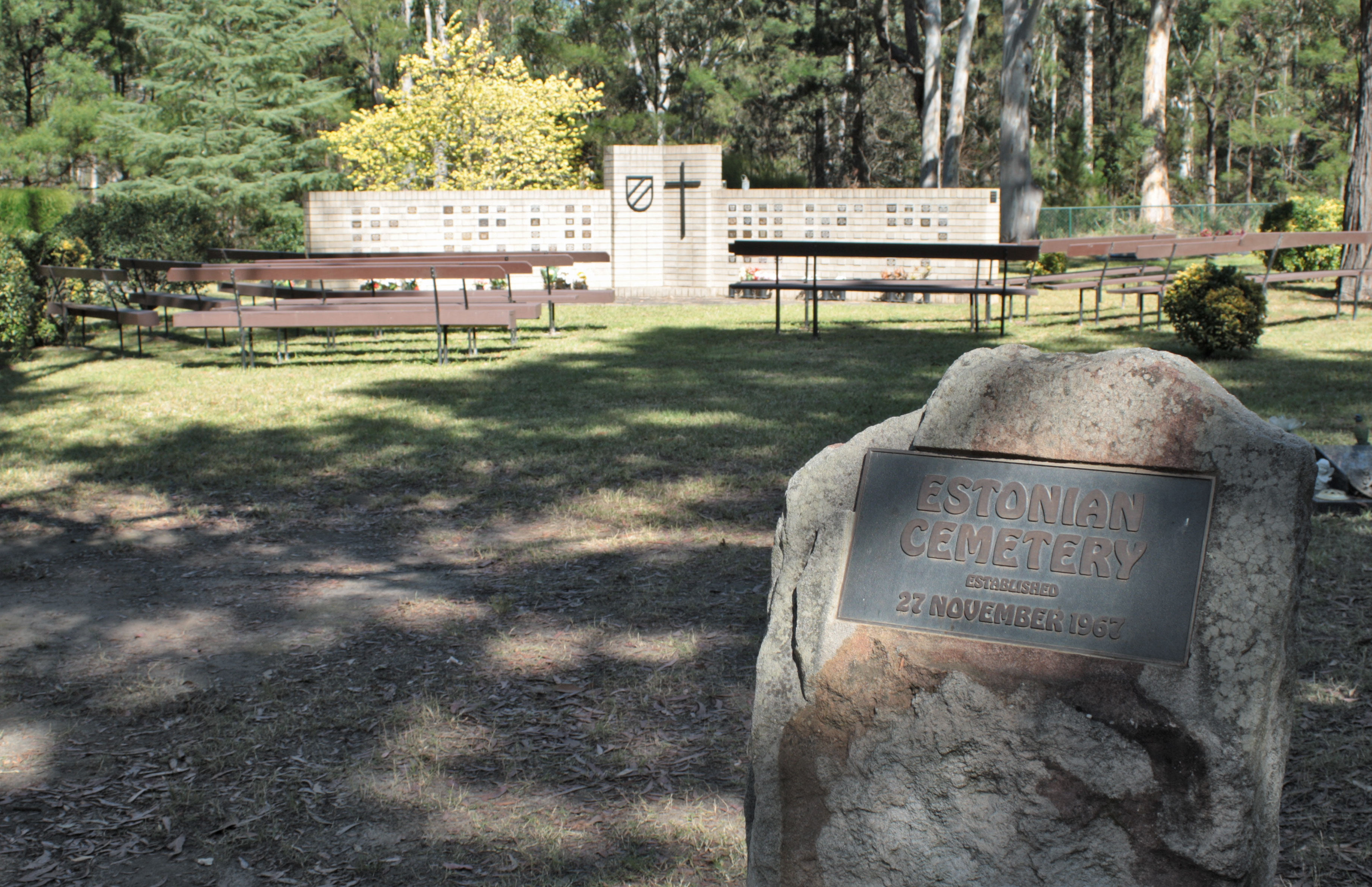 Estonian section of Thirlmere, NSW Australia cemetery.